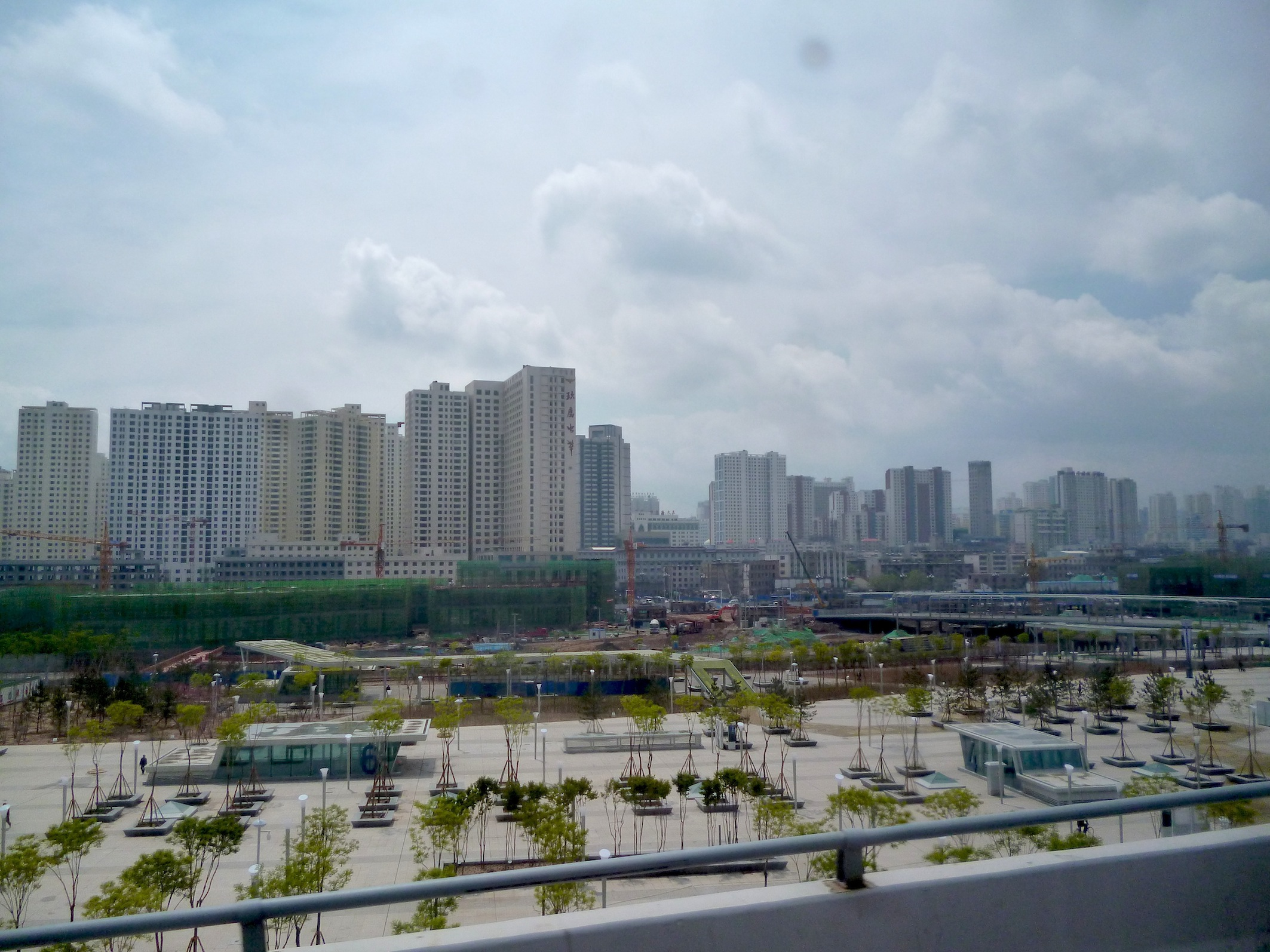 Xining constructing stop with dry Huangshui-River, Mai 2015